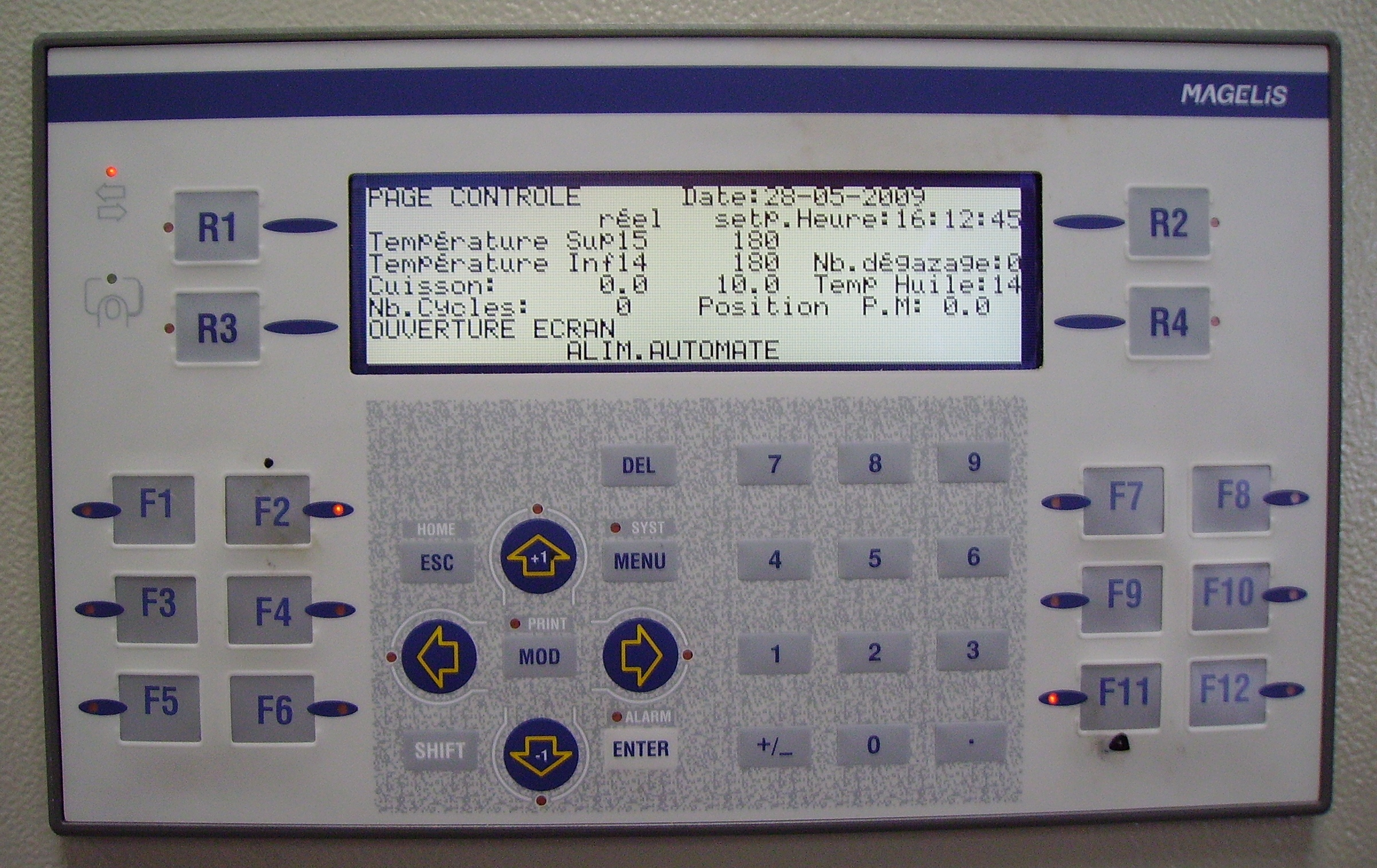 Control panel of a hydraulic heating press.